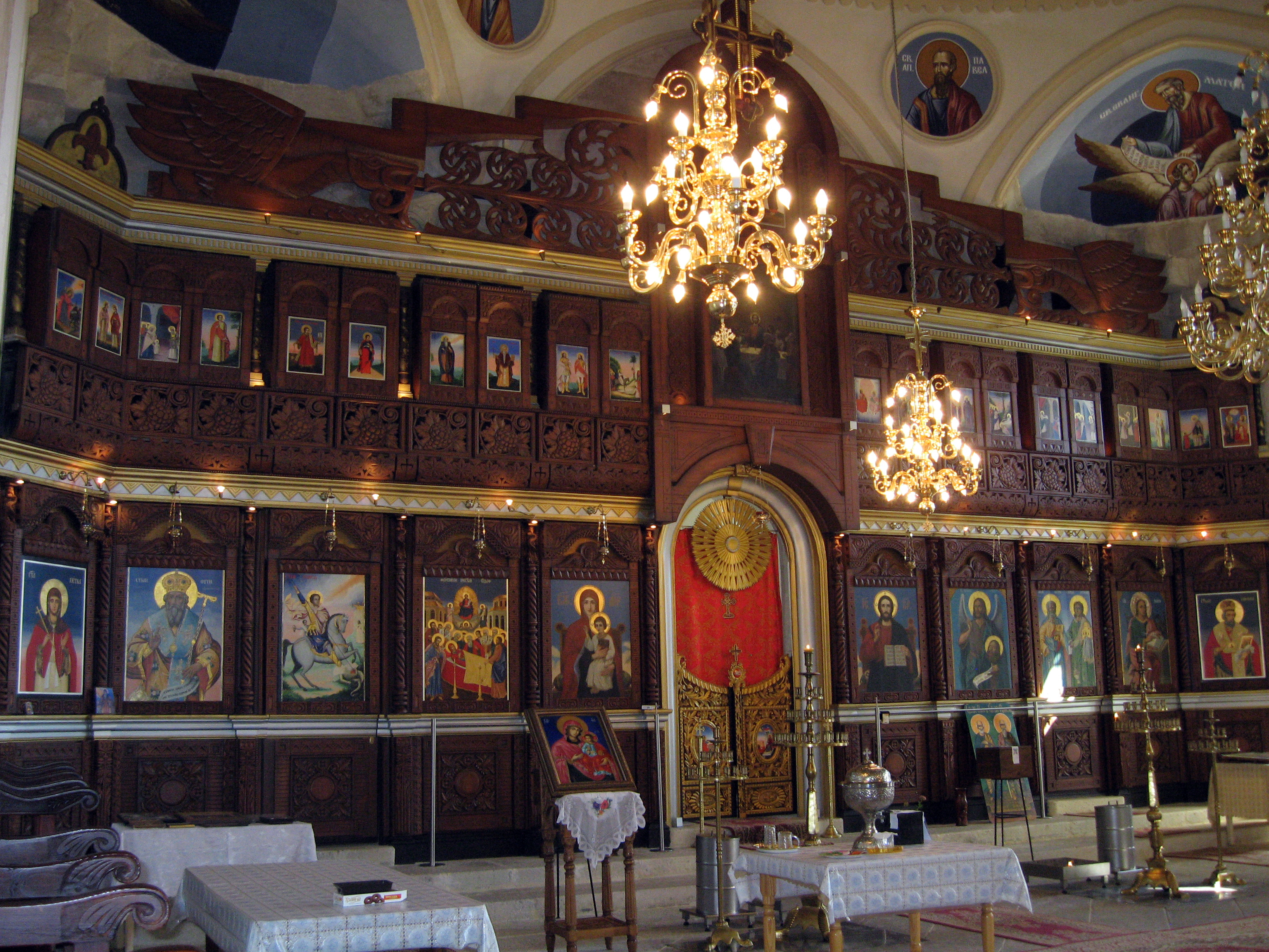 Church of the Assumption, Uzundzhovo, Bulgaria. Iconostasis, creator — Usta Darin Bozhkov